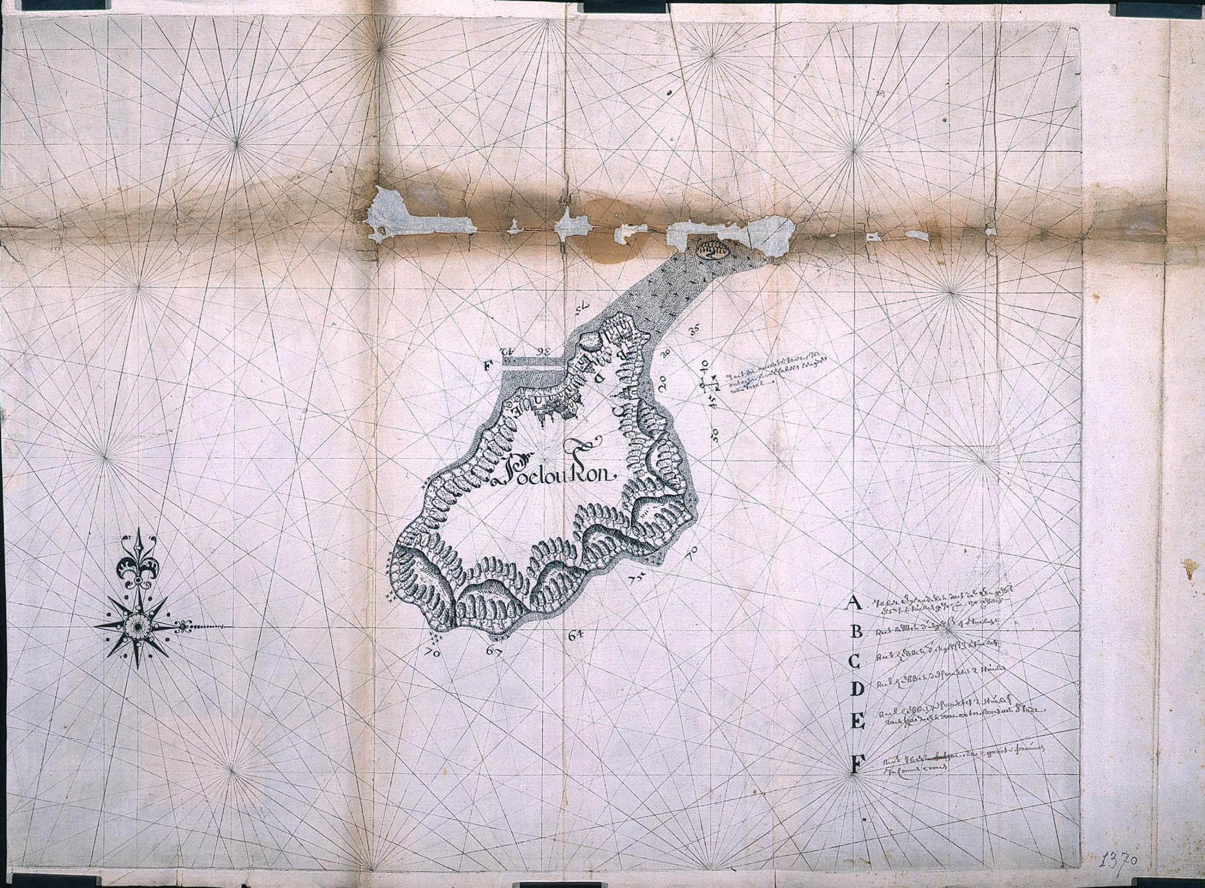 According to the Leupe catalogue (NA), the original title reads: Afteeckening van 't eiland Puleron. Notes on reverse: affteeckening van t'eylant Puleron / 664 c.